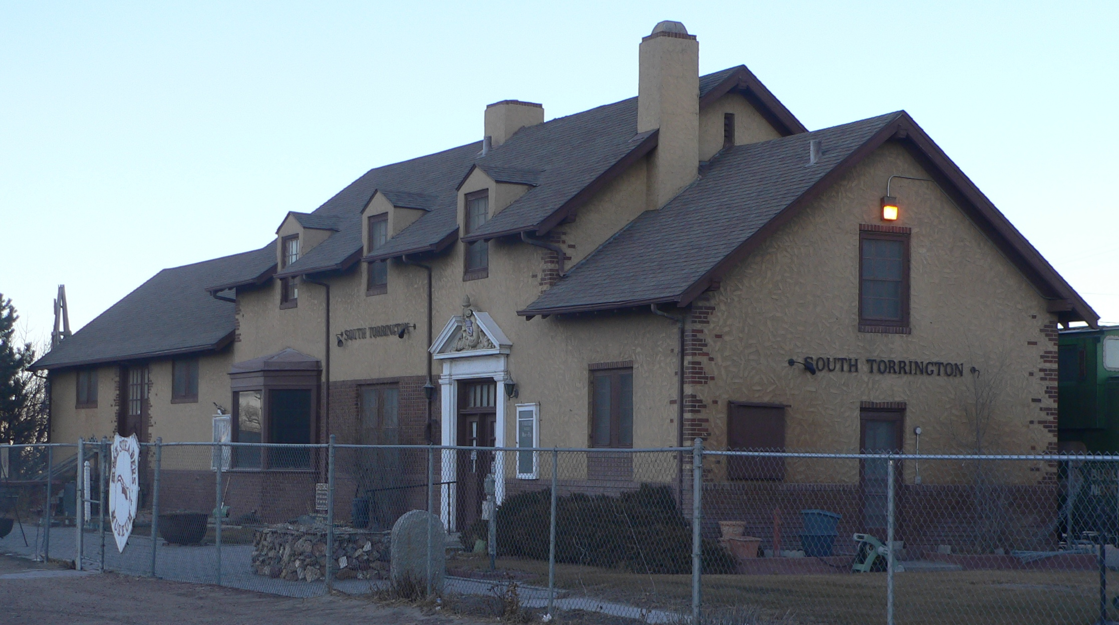 South Torrington, Wyoming Union Pacific Depot; now part of the Homesteaders Museum. Seen from the southwest.